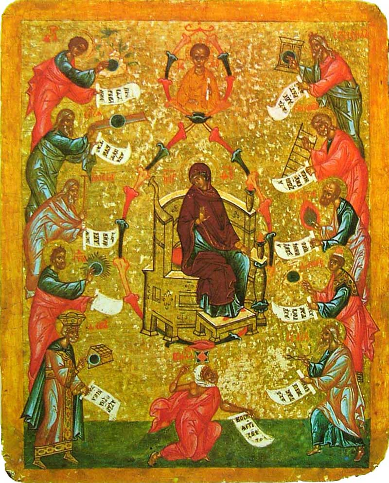 Praises of the Theotokos